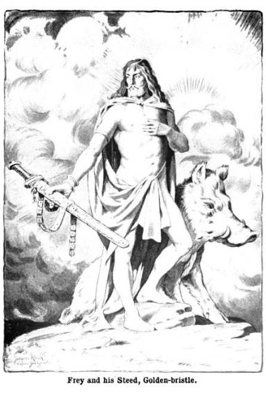 Illustration of Freyr with Gullinbursti by Jacques Reich with the caption "Frey and his Steed Golden-Bristle."